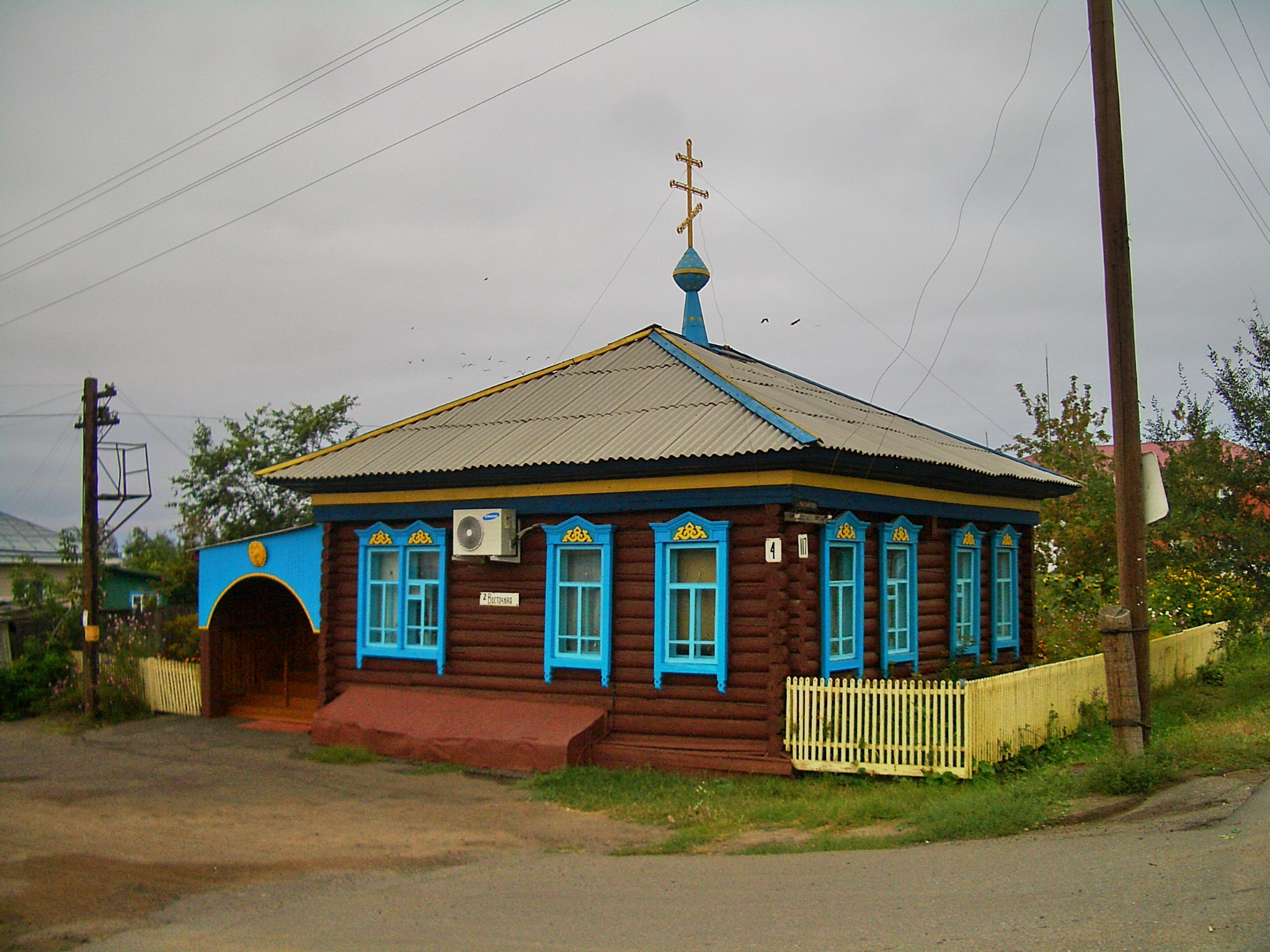 A log home converted into an Orthodox church in Cherlak, Omsk Oblast